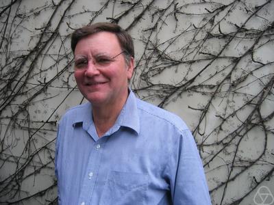 Pictures of Robert Guralnick